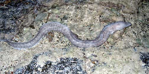 Conger cinereus